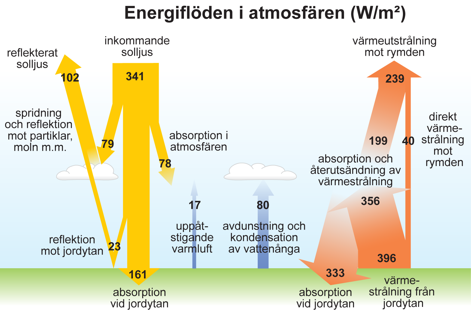 Energy flows in the atmosphere.